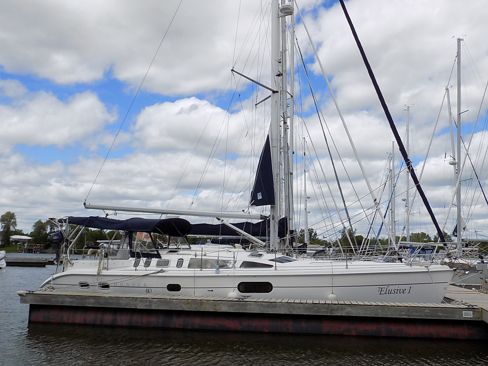 A Hunter 410 sailboat named Elusive I